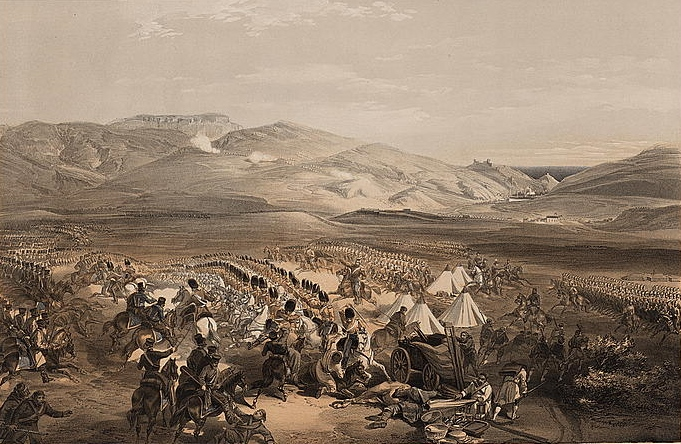 Print shows the Enniskillen Dragoons and the 5th Dragoon Guards engaging the Russian cavalry in the midst of the camp of the light cavalry brigade which is being plundered by the Russian troops during the battle of Balaklava.